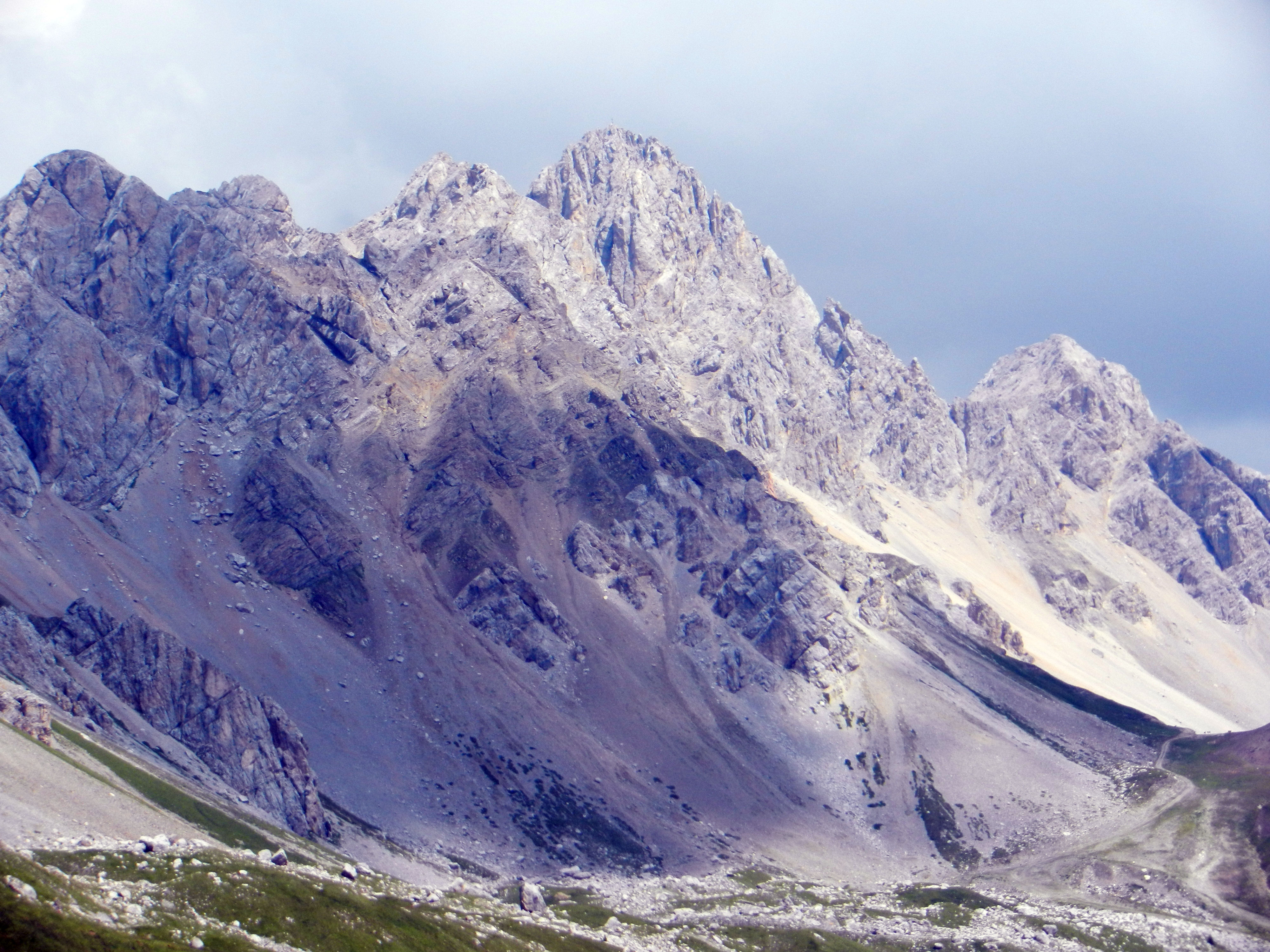 Dolomites, Mount Costabella